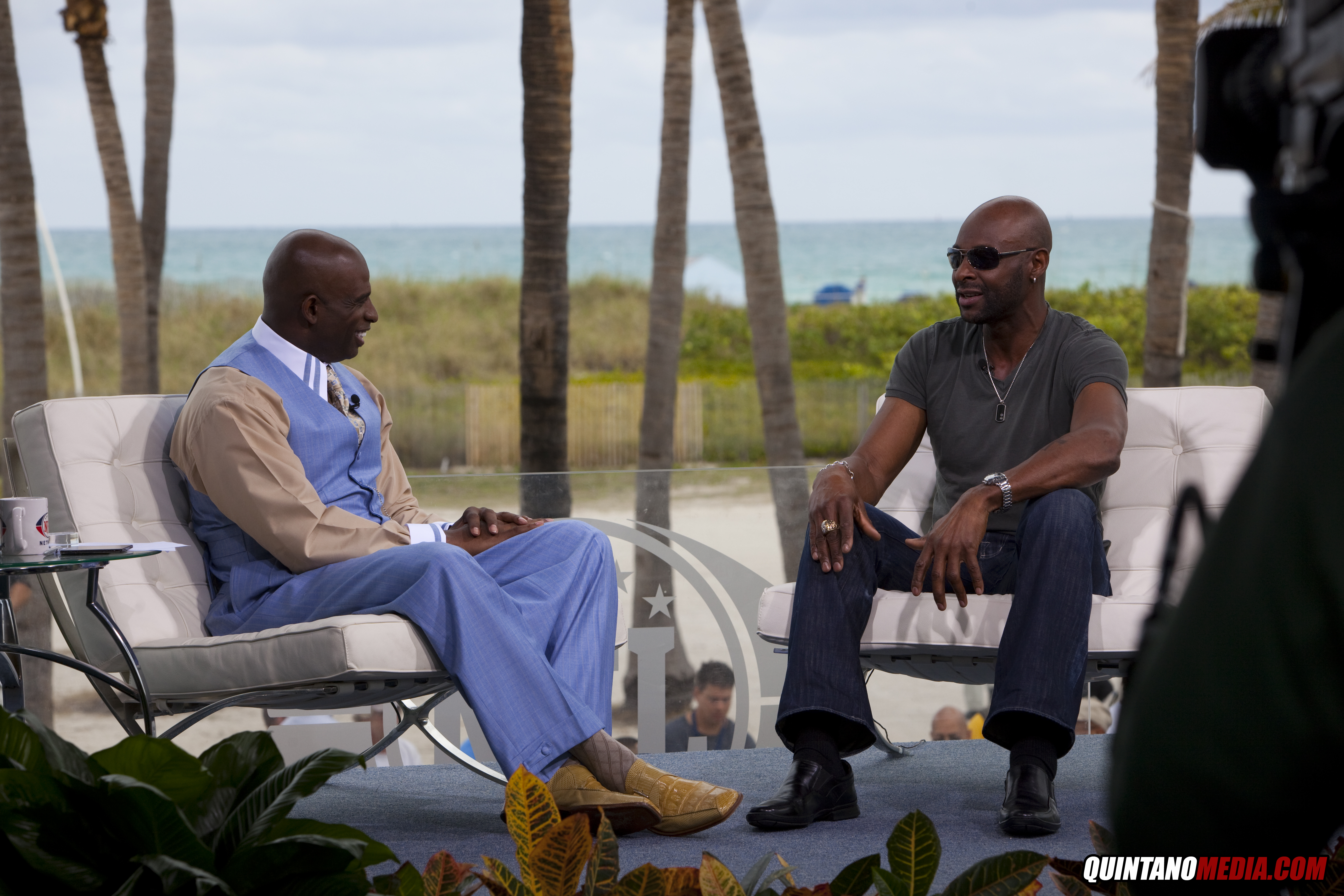 Deion Sanders interviews Jerry Rice at Super Bowl XLIV.